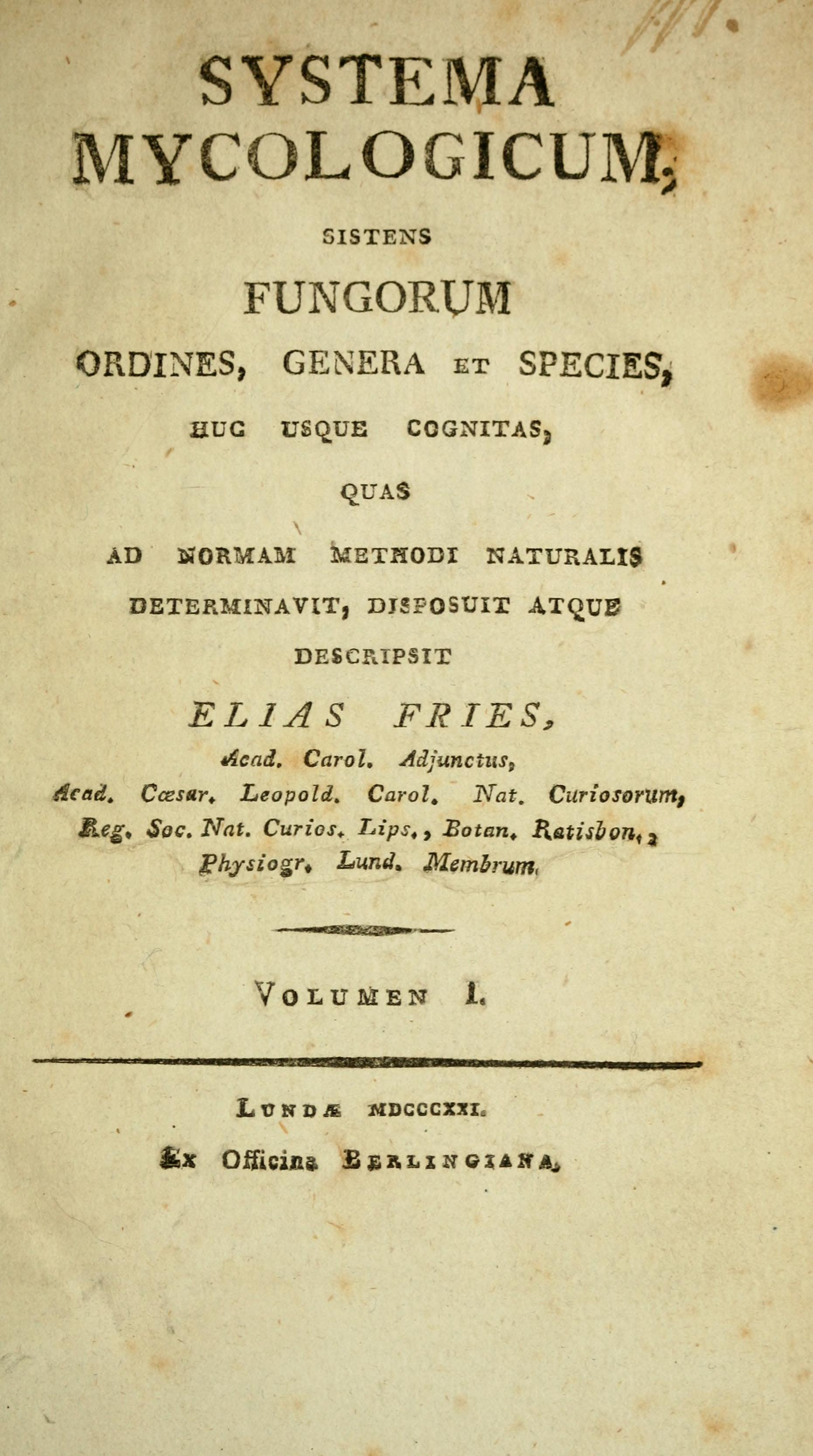 Title page of E.M. Fries' book Systema mycologicum (1821).